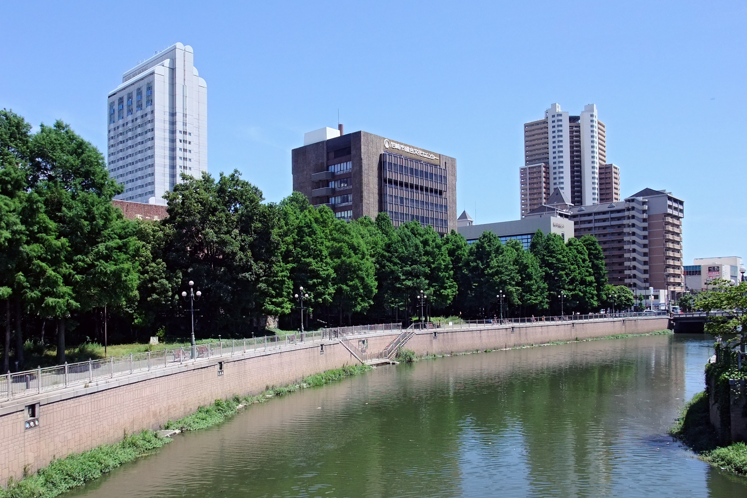 Amagasaki Cultural Center (Archaic Hall) in Amagasaki, Hyogo prefecture, Japan